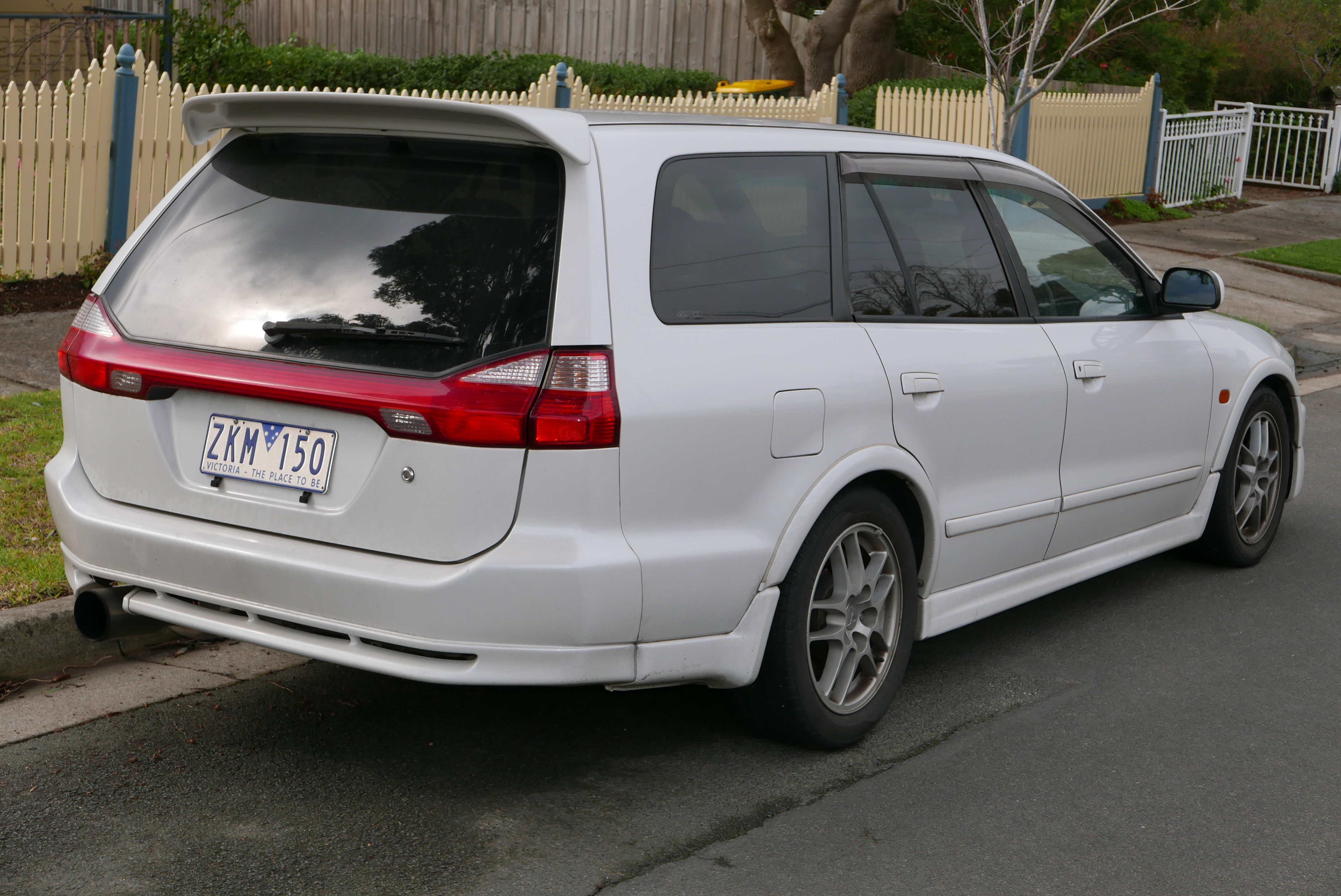 1999 Mitsubishi Legnum (EC5W) VR-4 type-S station wagon. This is a grey import from Japan, complianced for Australia in May 2011. Photographed in Blackburn North, Victoria, Australia. Vehicle registration enquiry results Jurisdiction Victoria Registration ZKM150 Chassis code 6U9000EC5W0300818 Engine code 6A13BK6203 Compliance date 2011-05 Year of manufacture 1999